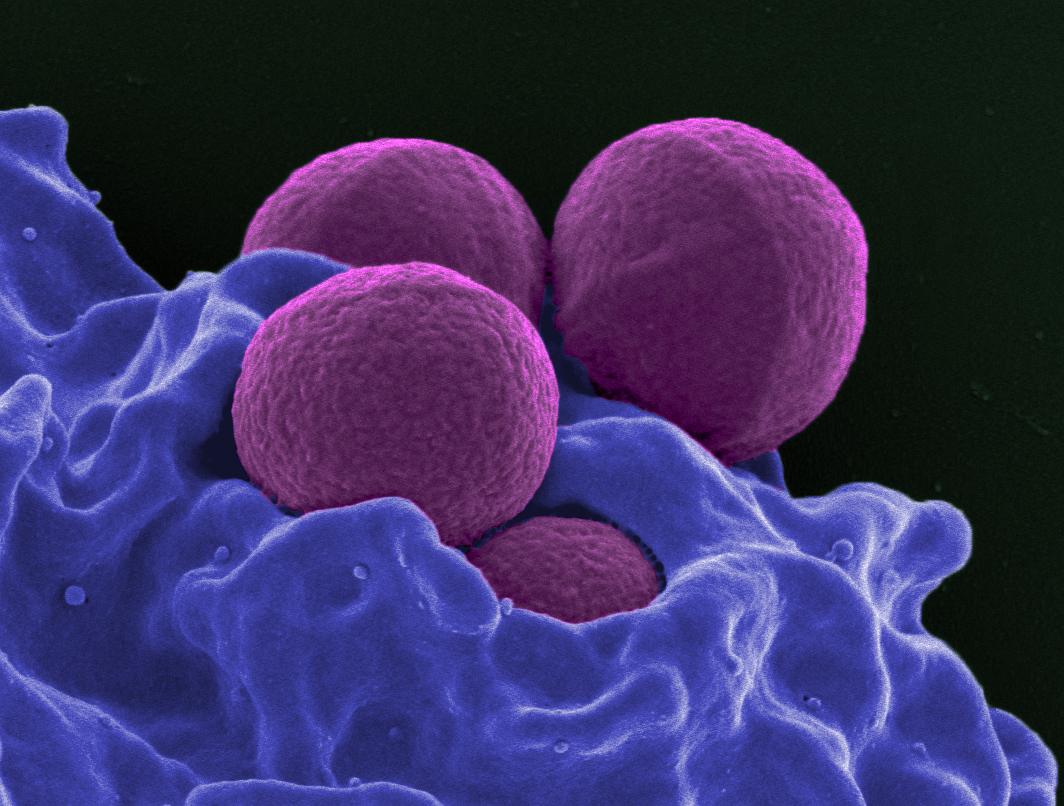 Human neutrophil ingesting MRSA Scanning electron micrograph of a human neutrophil ingesting MRSA National Institute of Allergy and Infectious Diseases (NIAID)